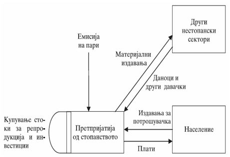 основните парични текови помеѓу претпријатијата од стопанстово, населението и другите сектори